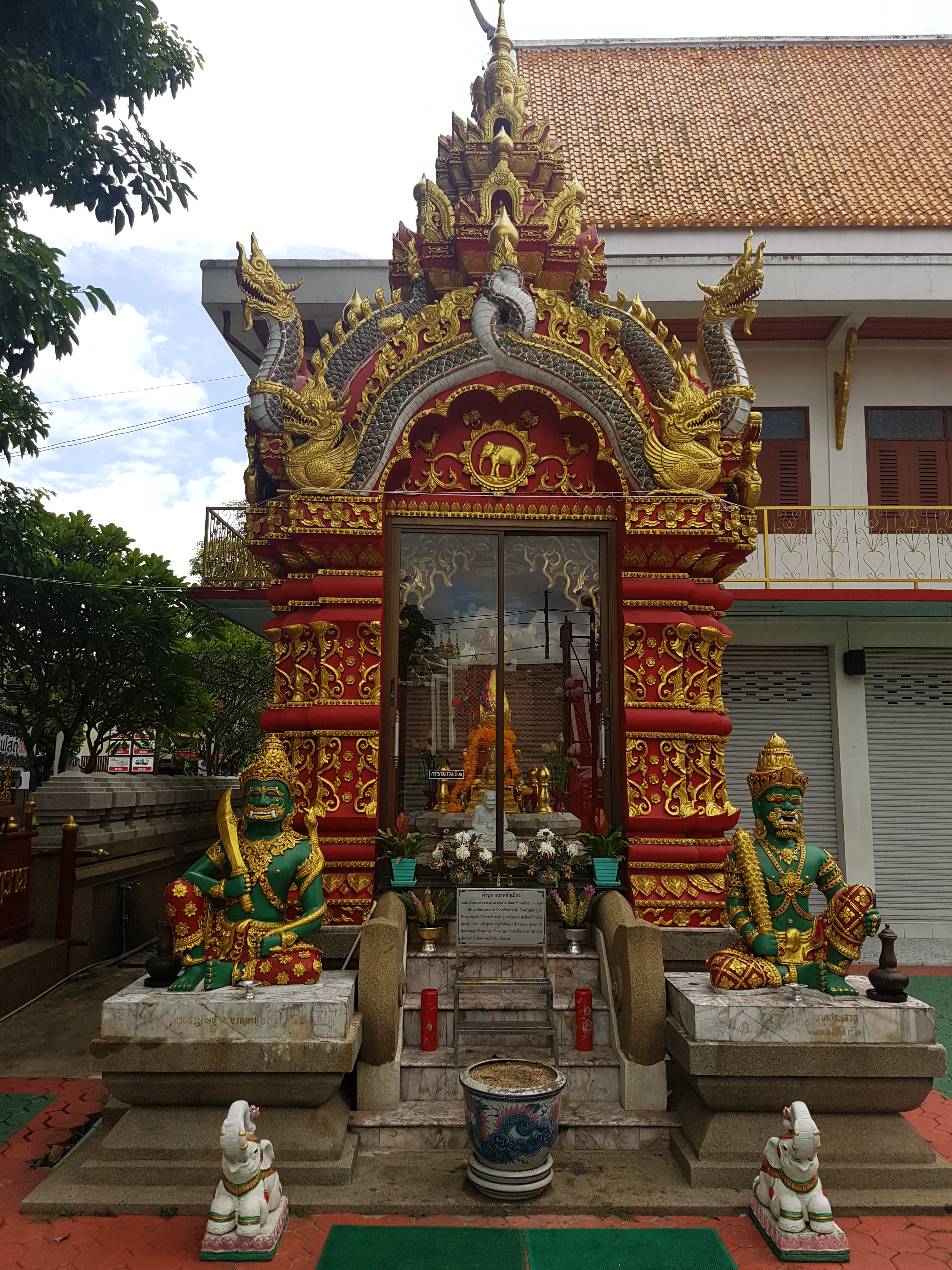 Wat Klang Wiang (วัดกลางเวียง), a Buddhist temple in Mueang Chiang Rai District, Chiang Rai Province, Thailand.